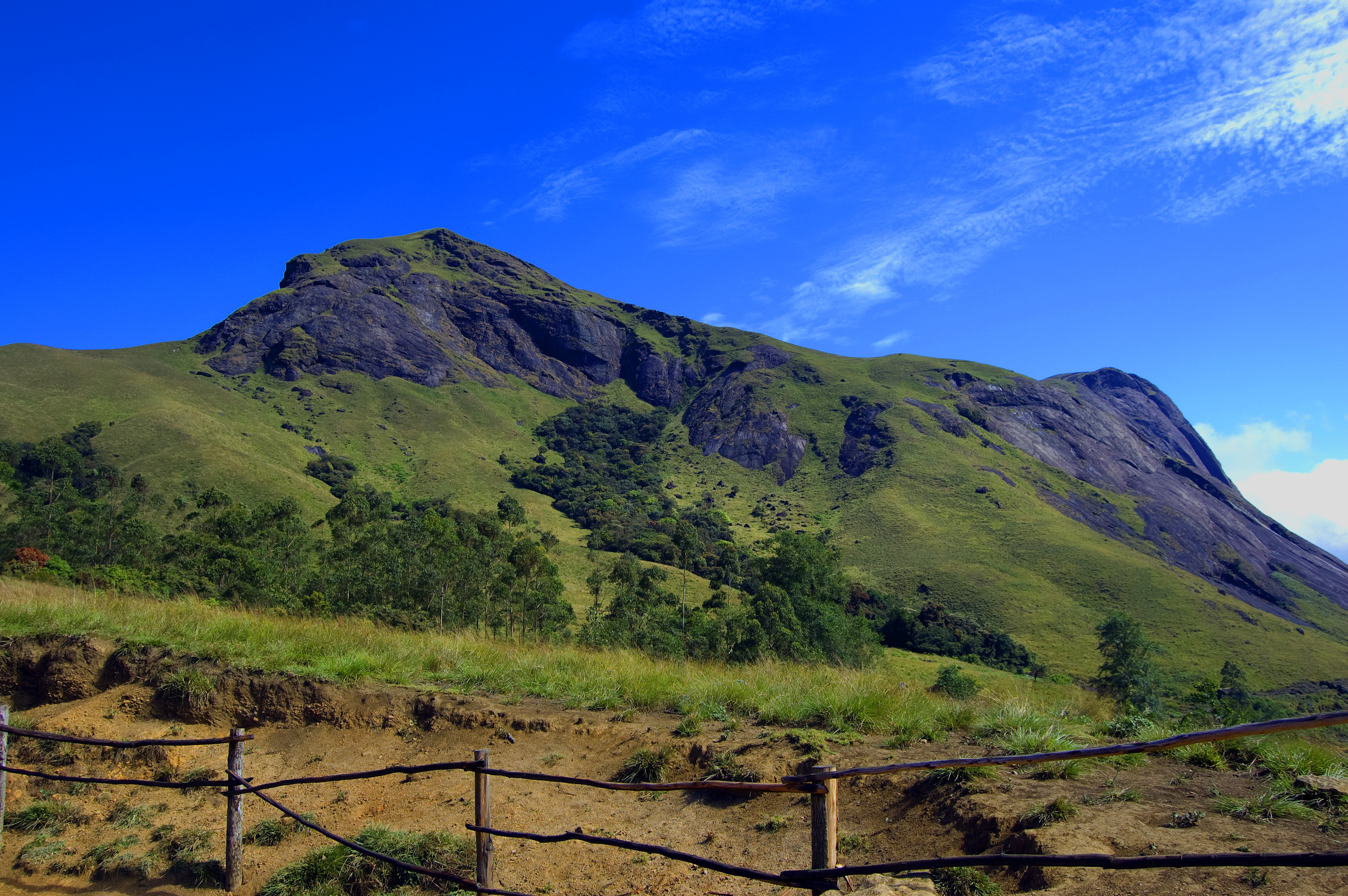 Naikolli Mala, a satellite peak of Anamudi from the Eravikulam National Park